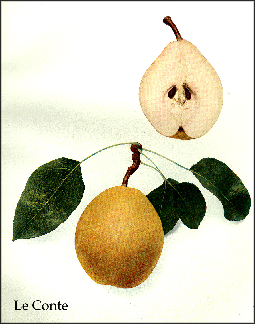 A colour plate from The Pears of New York (1921) depicting the Le Conte pear cultivar.